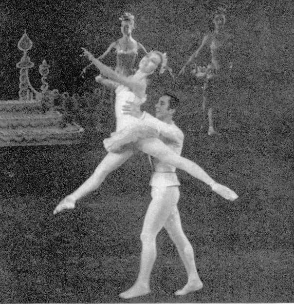 Maria Tallchief as the Sugar Plum Fairy and Nicholas Magallanes as her cavalier in the New York City Ballet's 1954 production of The Nutcracker.